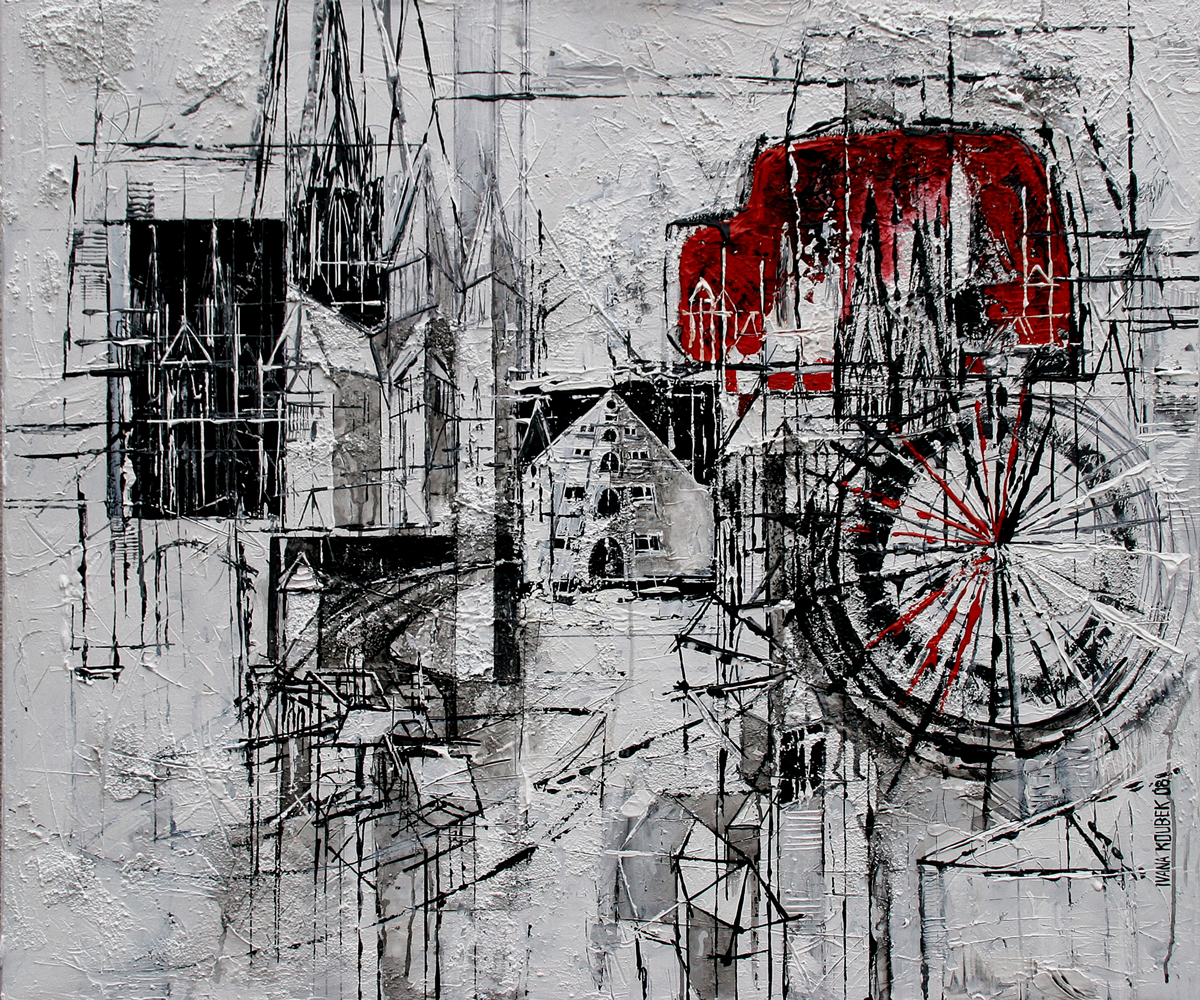 White Regensburg, Painting, Acryl on canvas, 2008